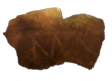 A Vinča symbol resembling Latin letter M.